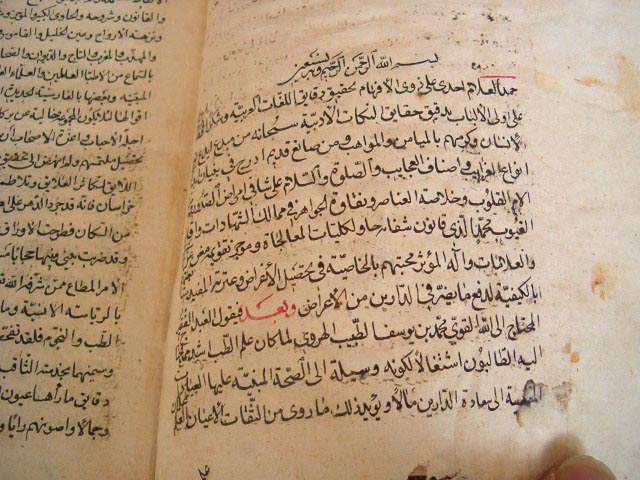 al-Harawi arabic manuscript probably Bahr al-Jawaher Medical Encyclopedia